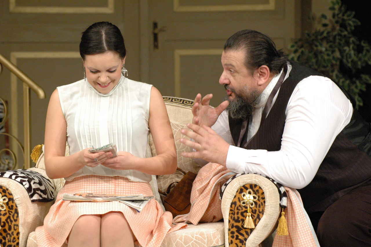 "Tartuffe", Drama of SNT, Novi Sad, 2007/08; one of the most famous theatrical comedies by Molière; directed by Dušan Petrović; actors: Jovana Mišković, Dušan Jakišić Srpski (latinica): "Tartif", Drama SNP, 2007/08; jedna od najpoznatijih Molijerovih komedija; u režiji Dušana Petrovića; glumci: Jovana Mišković, Dušan Jakišić Српски (ћирилица): "Тартиф", Драма СНП, 2007/08; једна од најпознатијих Молијерових комедија; у режији Душана Петровића; глумци: Јована Мишковић, Душан Јакишић